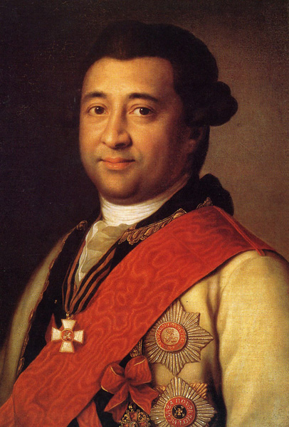 Portrait of Ivan Abramovich Gannibal (1735-1801)